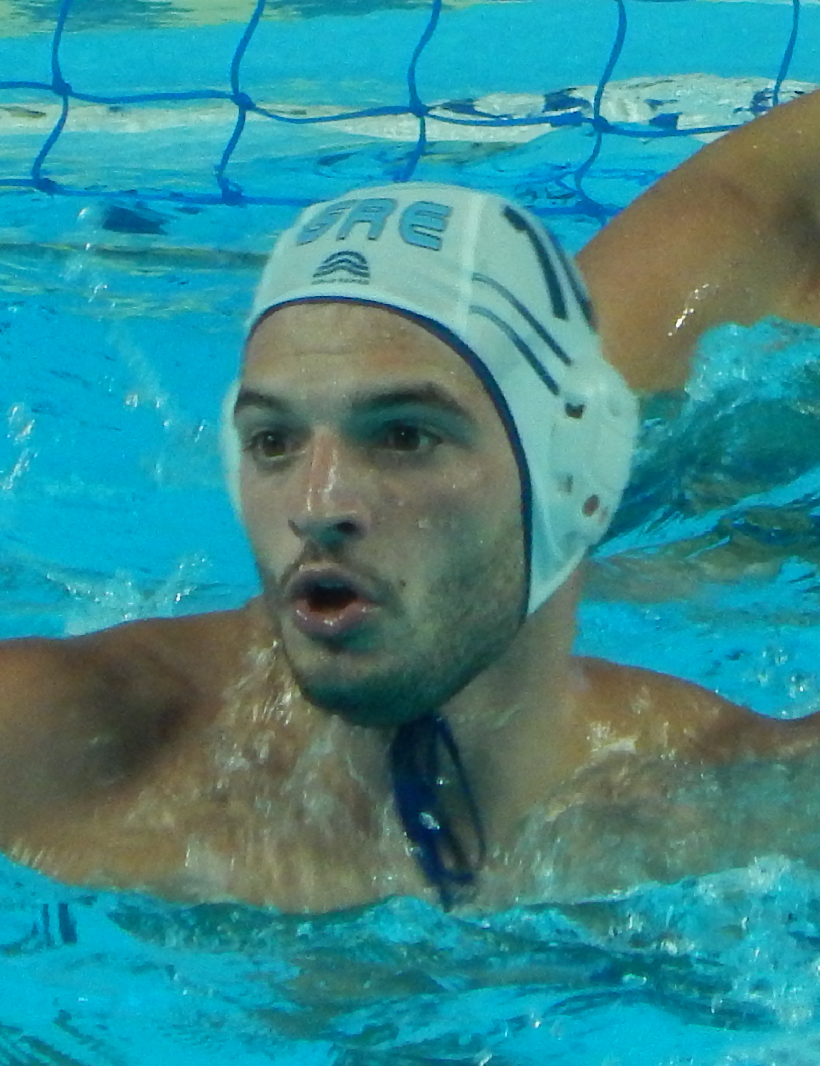 Christodoulos Kolomvos in the bronze medal match between Team Greece and Team Italy, 2015 World Championship in Kazan.